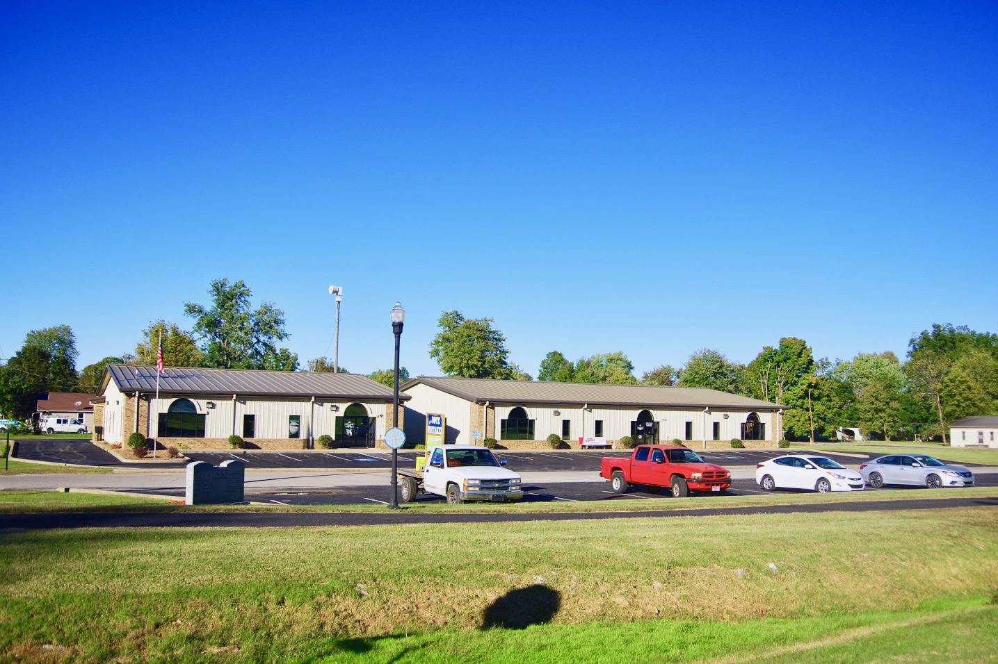 City Hall and other municipal buildings in White Plains, Kentucky, United States.